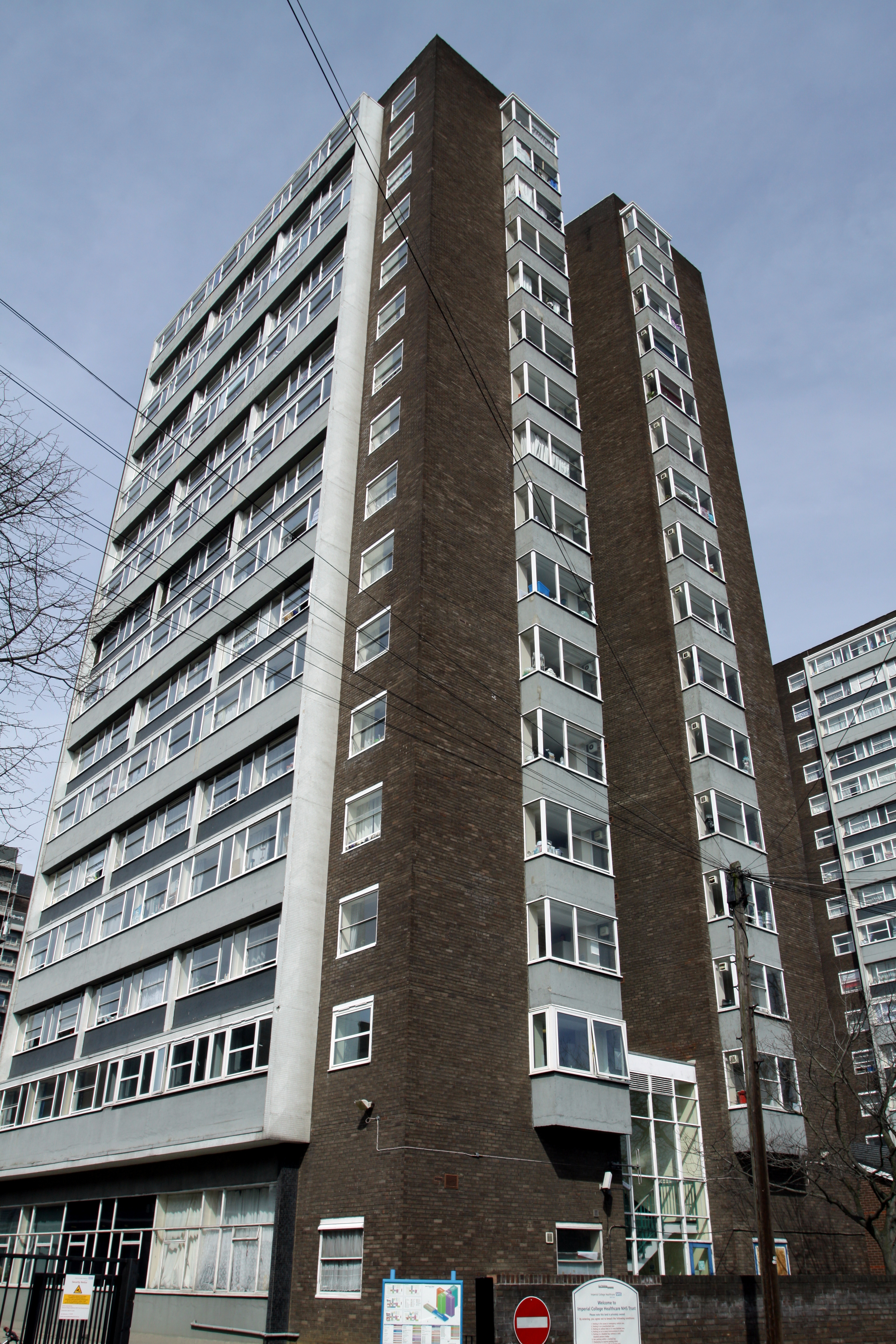 Charing Cross Hospital in the London Borough of Hammersmith and Fulham, London, Great Britain. The making of this file was supported by Wikimedia UK.